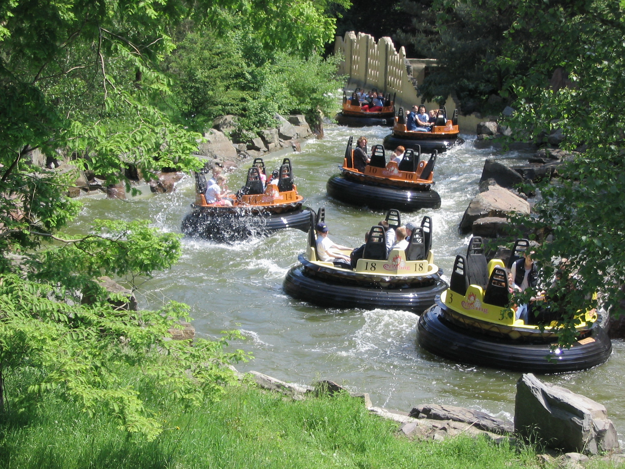 Boats on Eftelings Rapid River Pirana